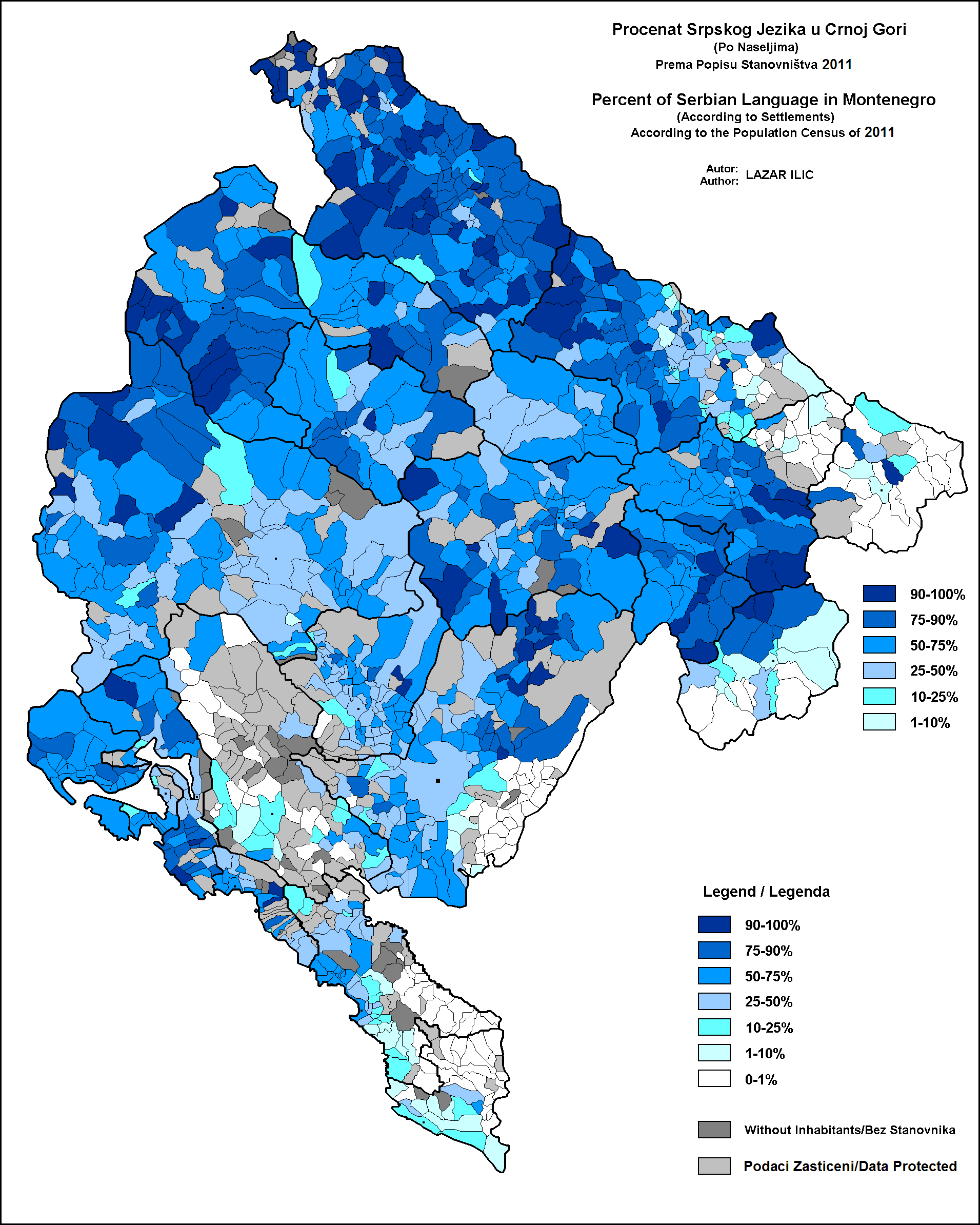 This is a map of settlements in Montenegro, showing the percent of Serbian language (mother tongue) according to the 2011 population census.